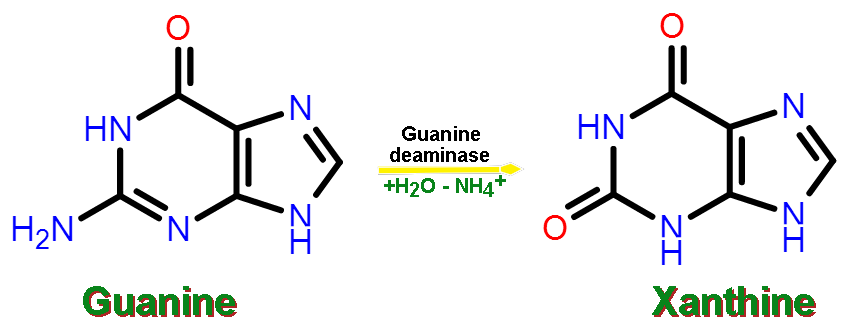 Guanine conversion to xanthine via guanosine deaminase